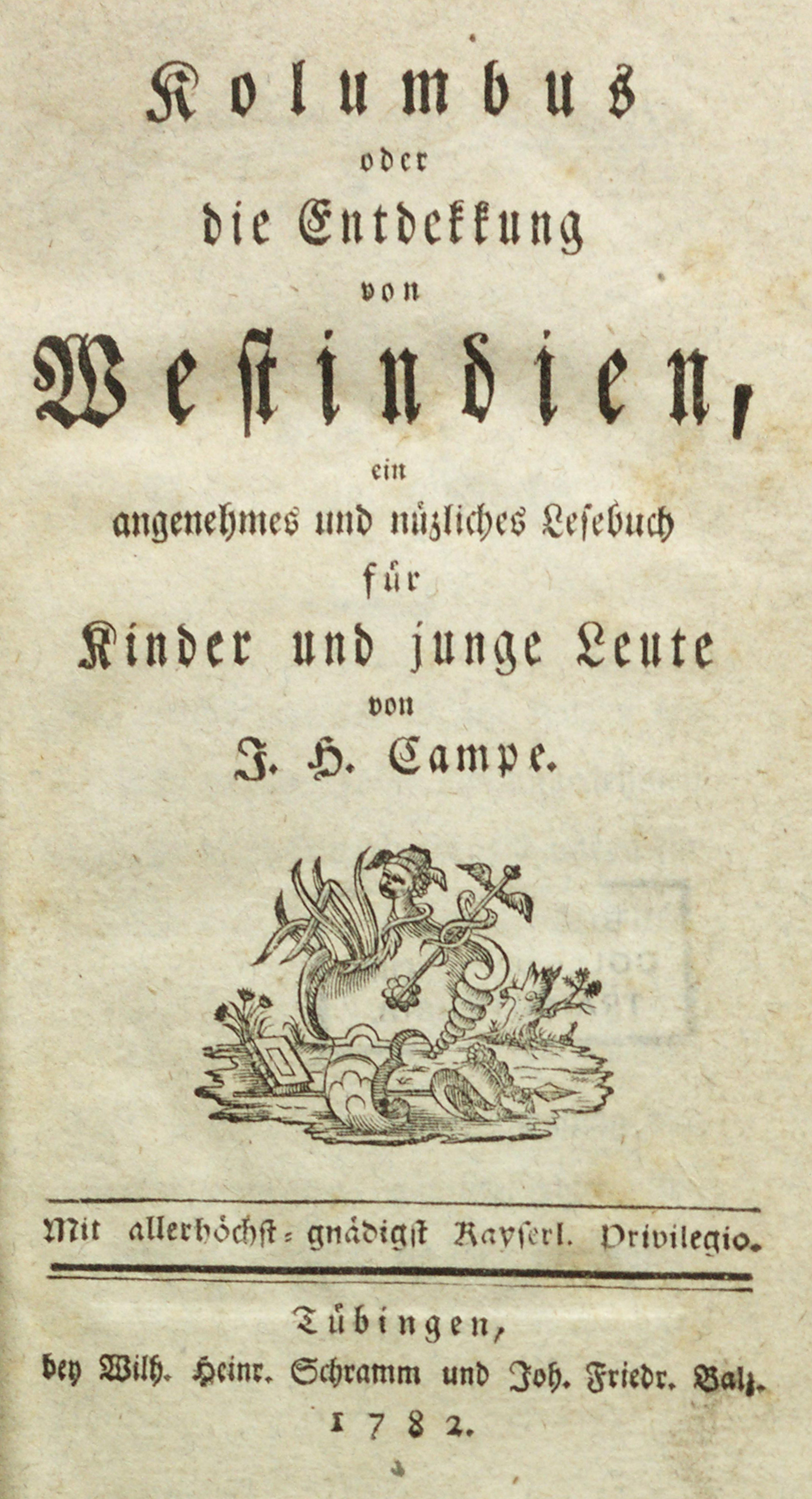 From Joachim Heinrich Campe: Kolumbus oder die Entdekkung von Westindien (1782)